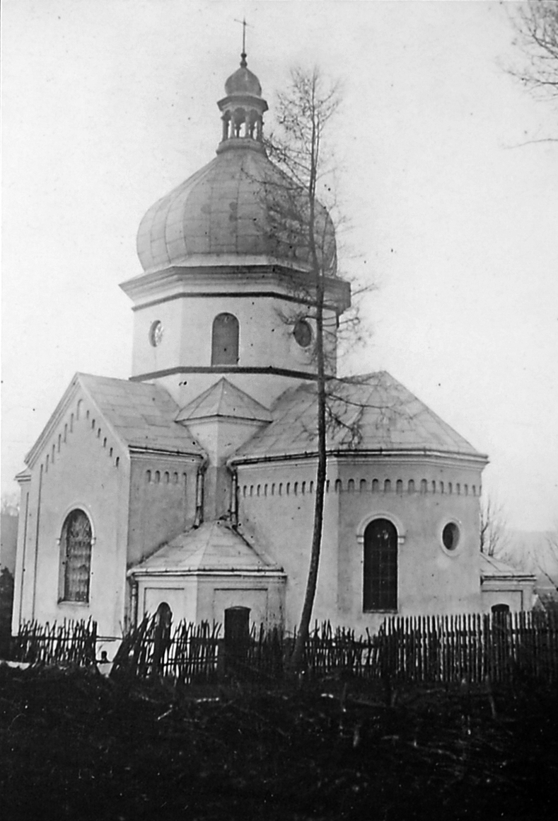 Greek Catholic church in Myczkowce (ukr. Mychkivtsy) (photo 1912)